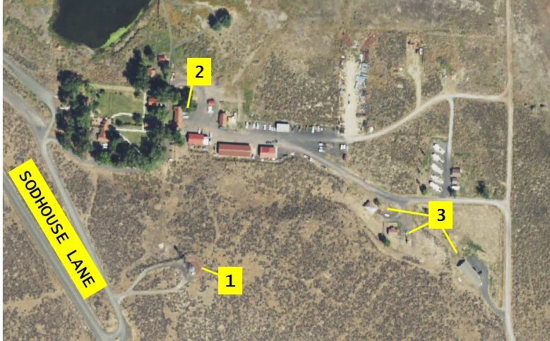 Map of locations occupied by militants at Mahleur National Wildlife Refuge as per Oregon Public Broadcasting ( [1] - Fire lookout used by militants as watch tower, [2] MNWR offices used as HQ by militants, [3] staff residential buildings used as barracks and canteen by militants